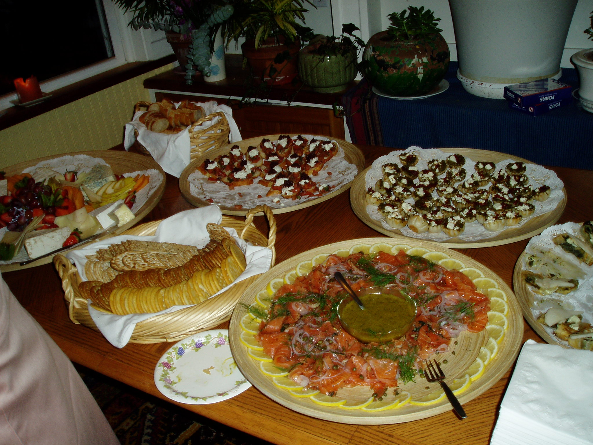 Smörgåsbord, Swedish buffet-style food